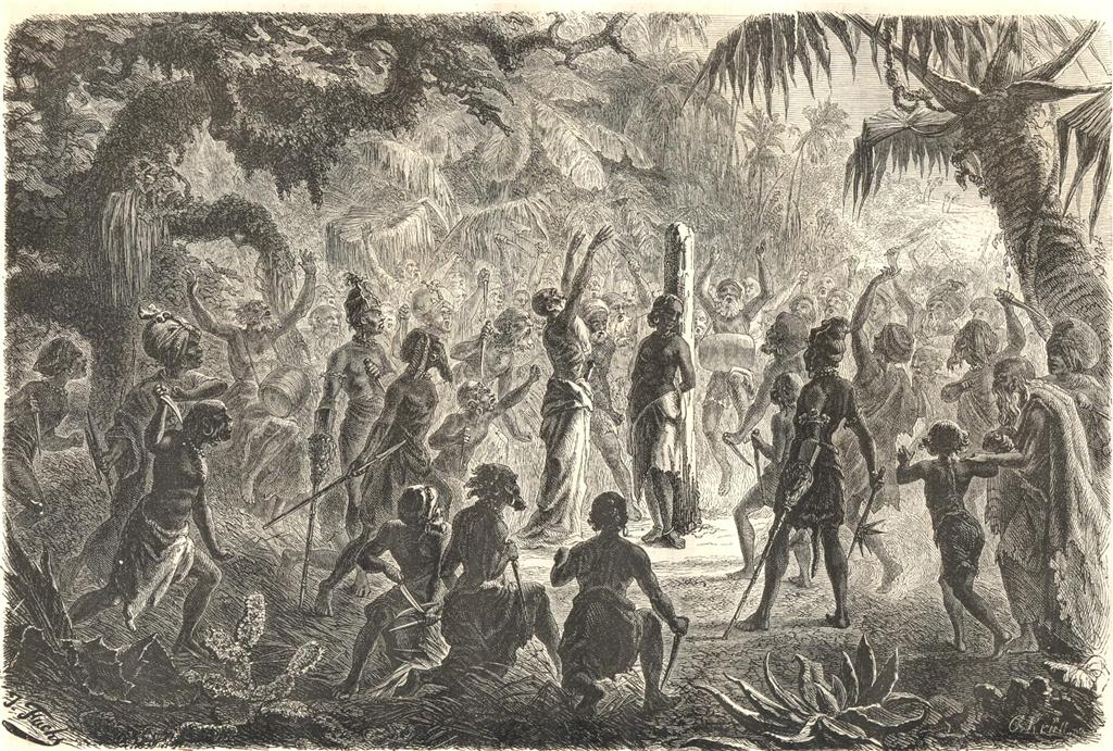 "Human sacrifices in Khondistan," an engraving from 'Le Tour du Monde', 1864 Source: ebay, Apr. 2008